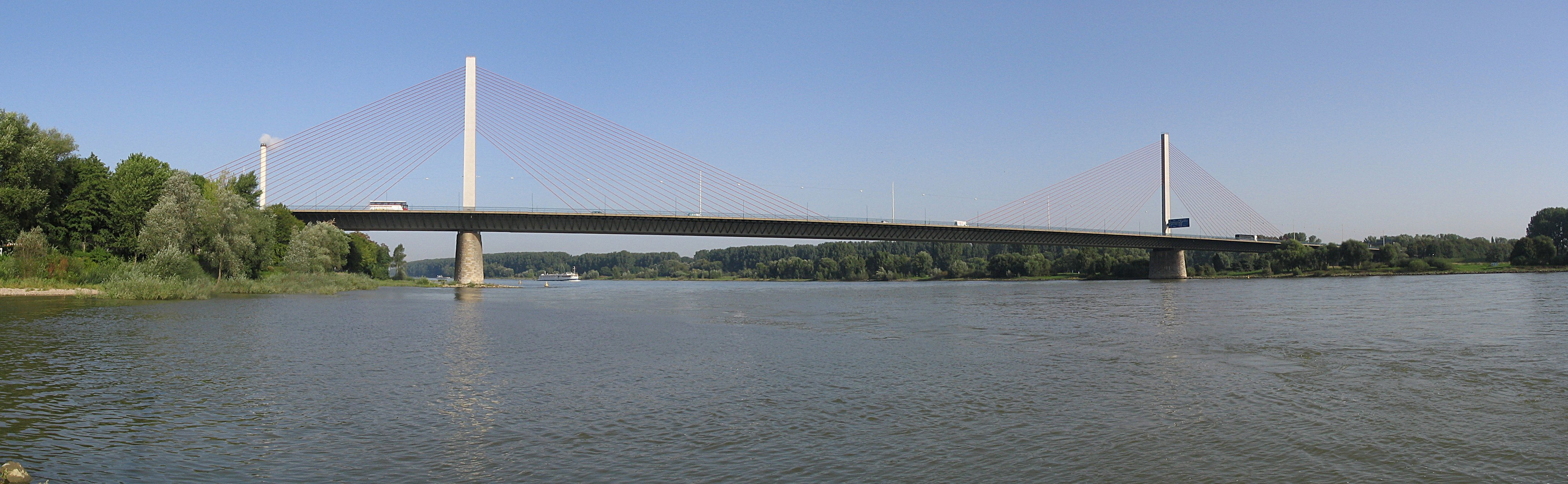 Friedrich-Ebert-Brücke Bonn (Panorama from south)